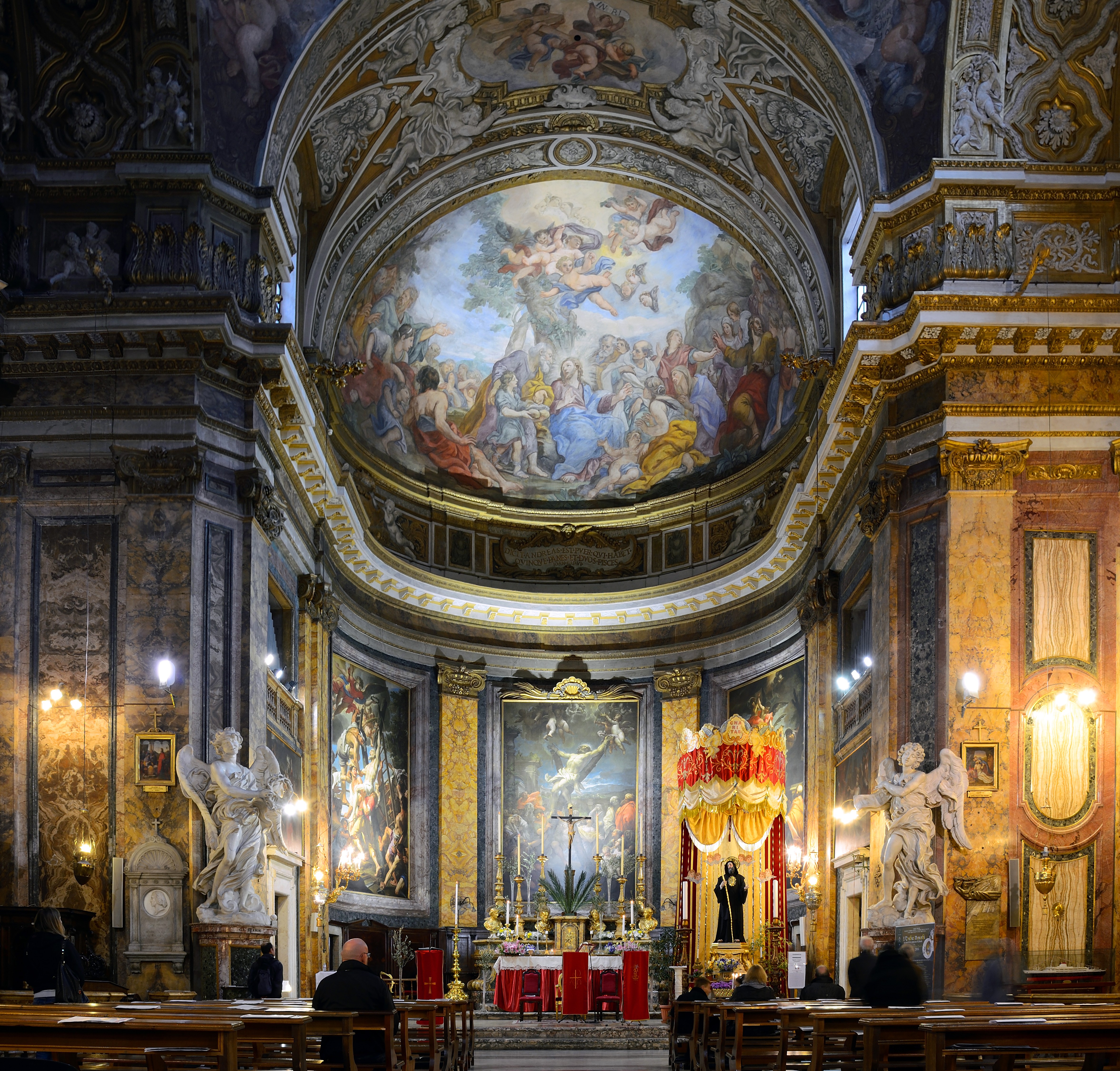 Sant'Andrea delle Fratte - interno